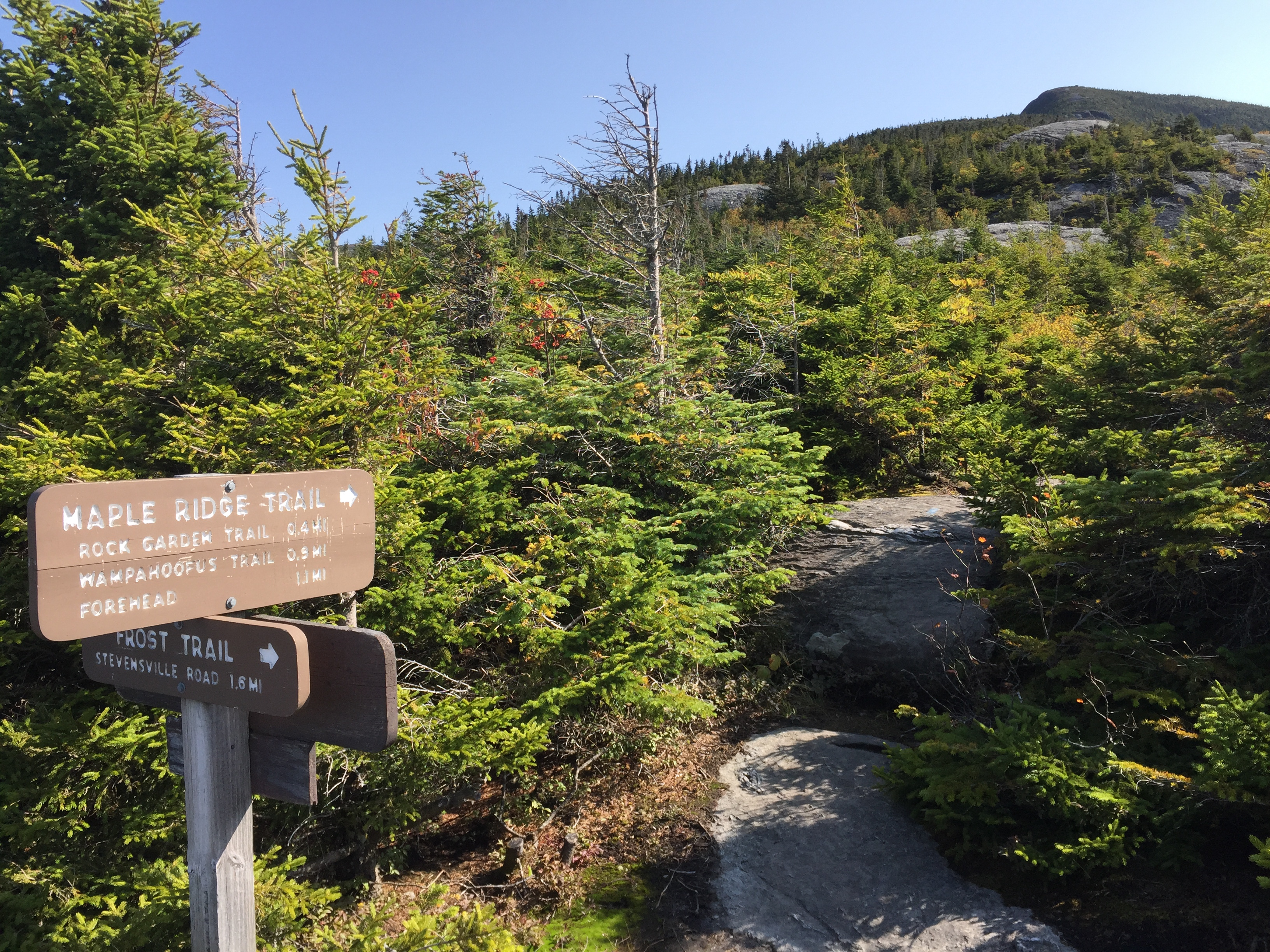 View east along the Maple Ridge Trail at the junction with the Frost Trail on the western slopes of Mount Mansfield within Mount Mansfield State Forest in Underhill, Chittenden County, Vermont